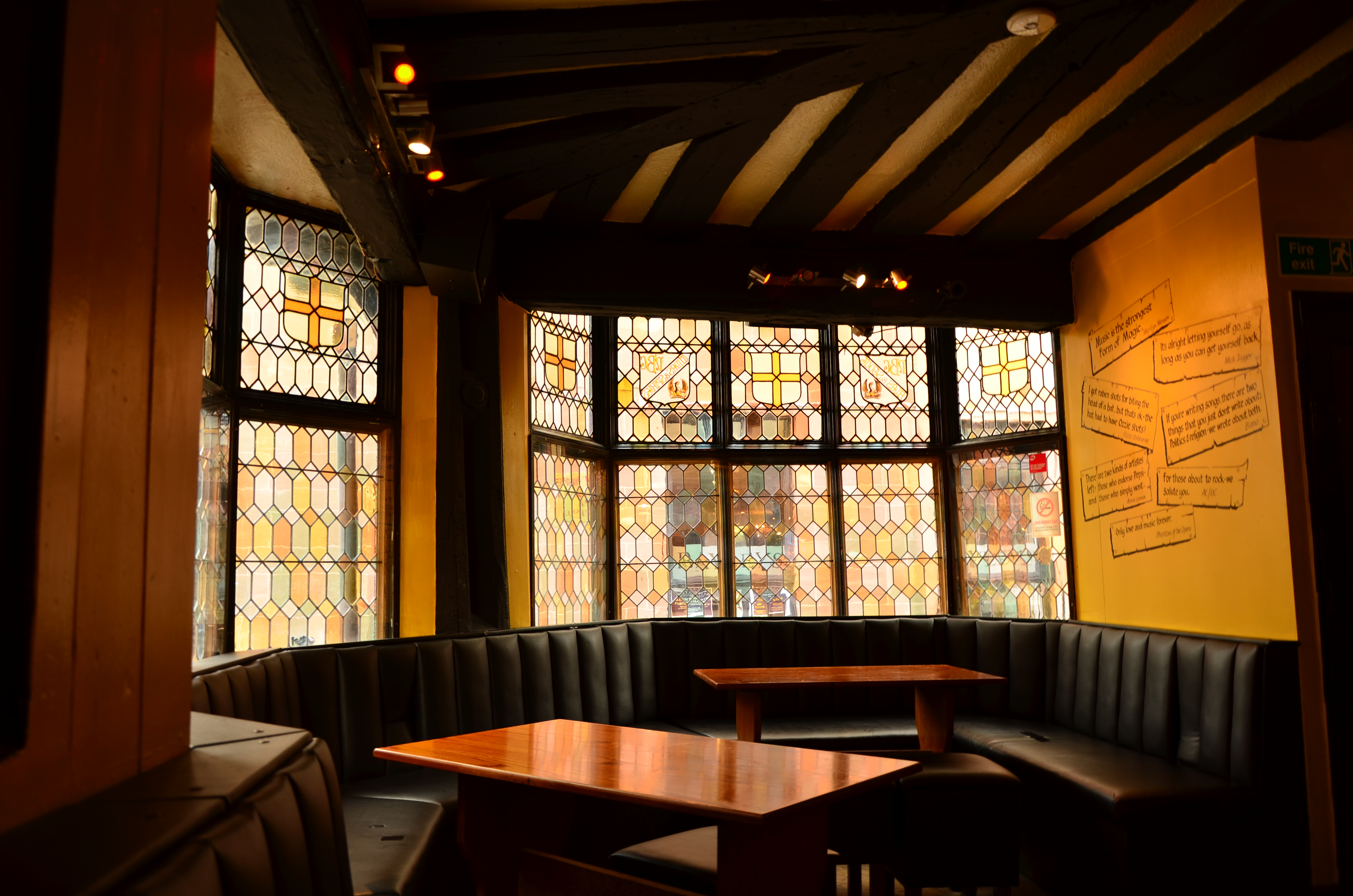 Windows of the Golden Cross Inn, Coventry